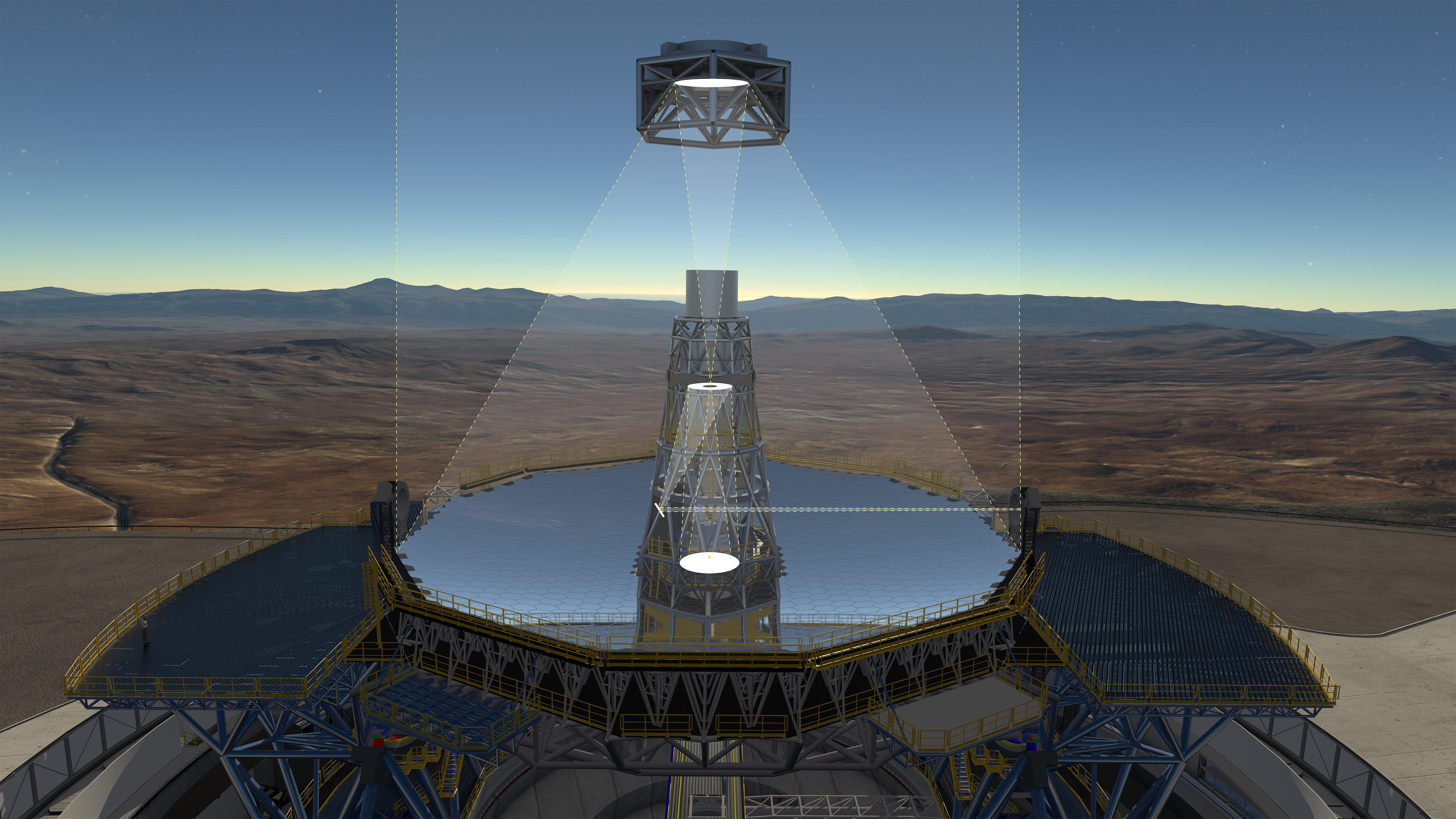 This diagram shows the novel 5-mirror optical system of ESO's Extremely Large Telescope (ELT). Before reaching the science instruments the light is first reflected from the telescope's giant concave 39-metre segmented primary mirror, it then bounces off two further 4-metre-class mirrors, one convex and one concave. The final two mirrors form a built-in adaptive optics system to allow extremely sharp images to be formed at the final focal plane.